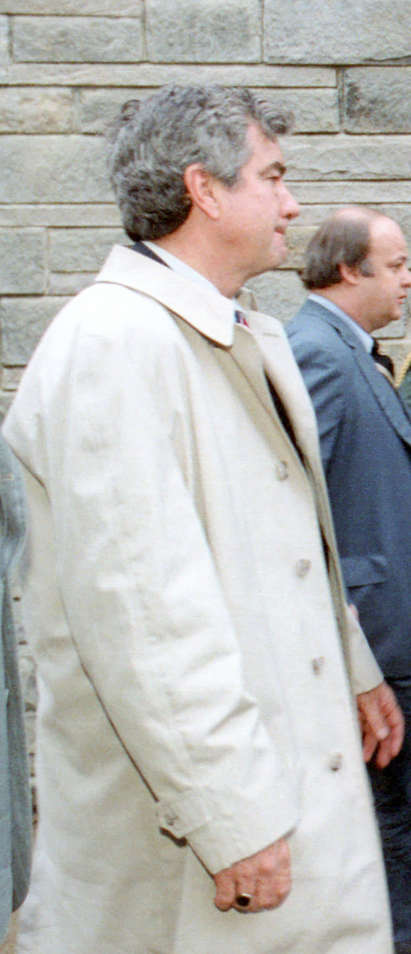 U.S. President Ronald Reagan waves just before he is shot outside a Washington hotel, Monday, March 30, 1981. From left are secret service agent Jerry Parr, in raincoat, who pushed Reagan into the limousine; press secretary James Brady, who was seriously wounded; Reagan; Michael Deaver, Reagan's aide; unidentified policeman; Washington policeman Thomas K. Delahanty, who was shot; and secret service agent Timothy J. McCarthy, who was shot in the stomach.